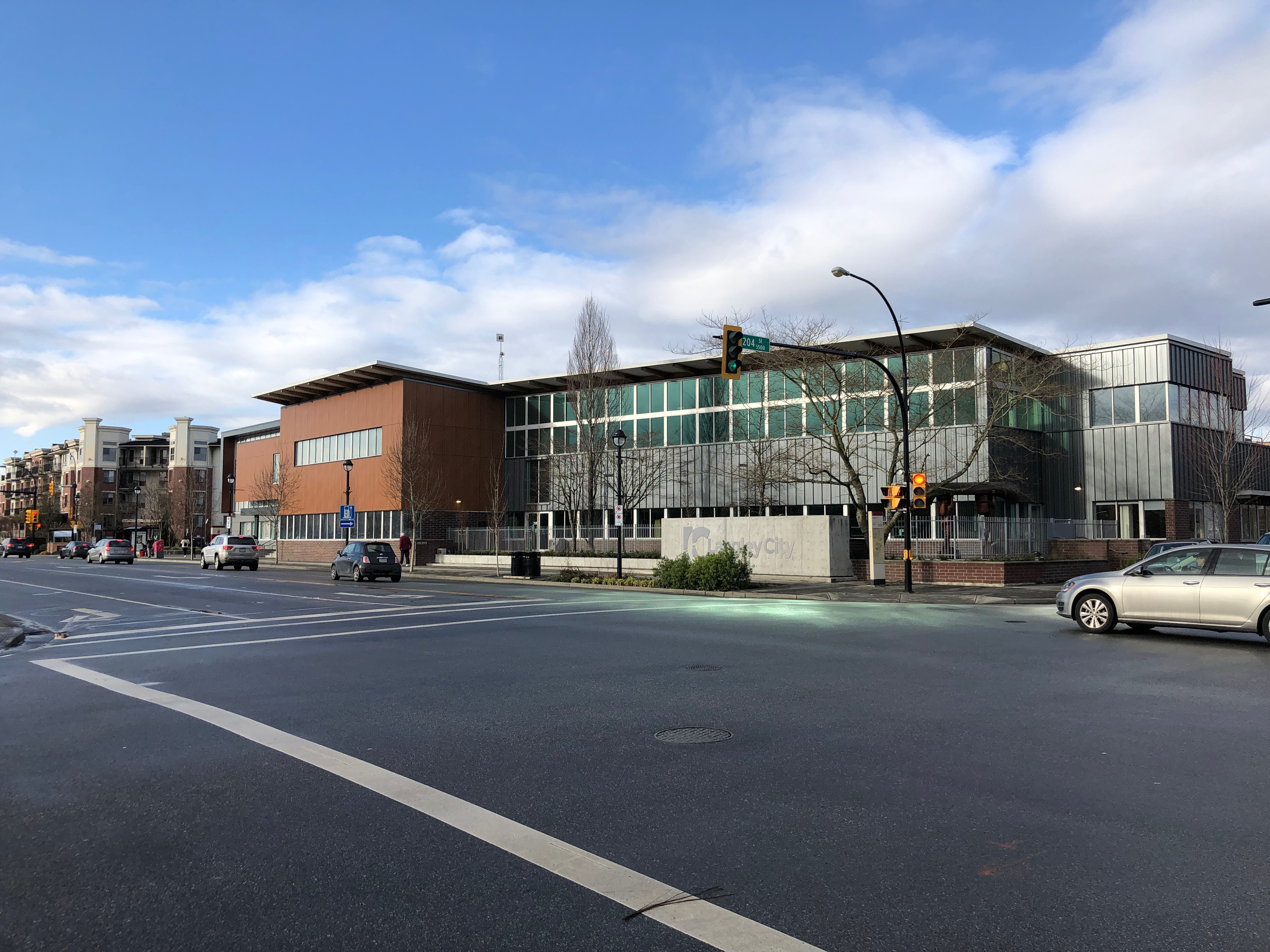 Langley City Municipal Hall and Timms Community Centre. City of Langley, British Columbia, Canada